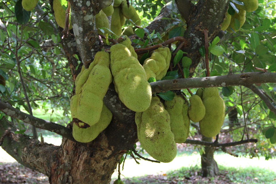 Artocarpus heterophyllus (Jackfruit)